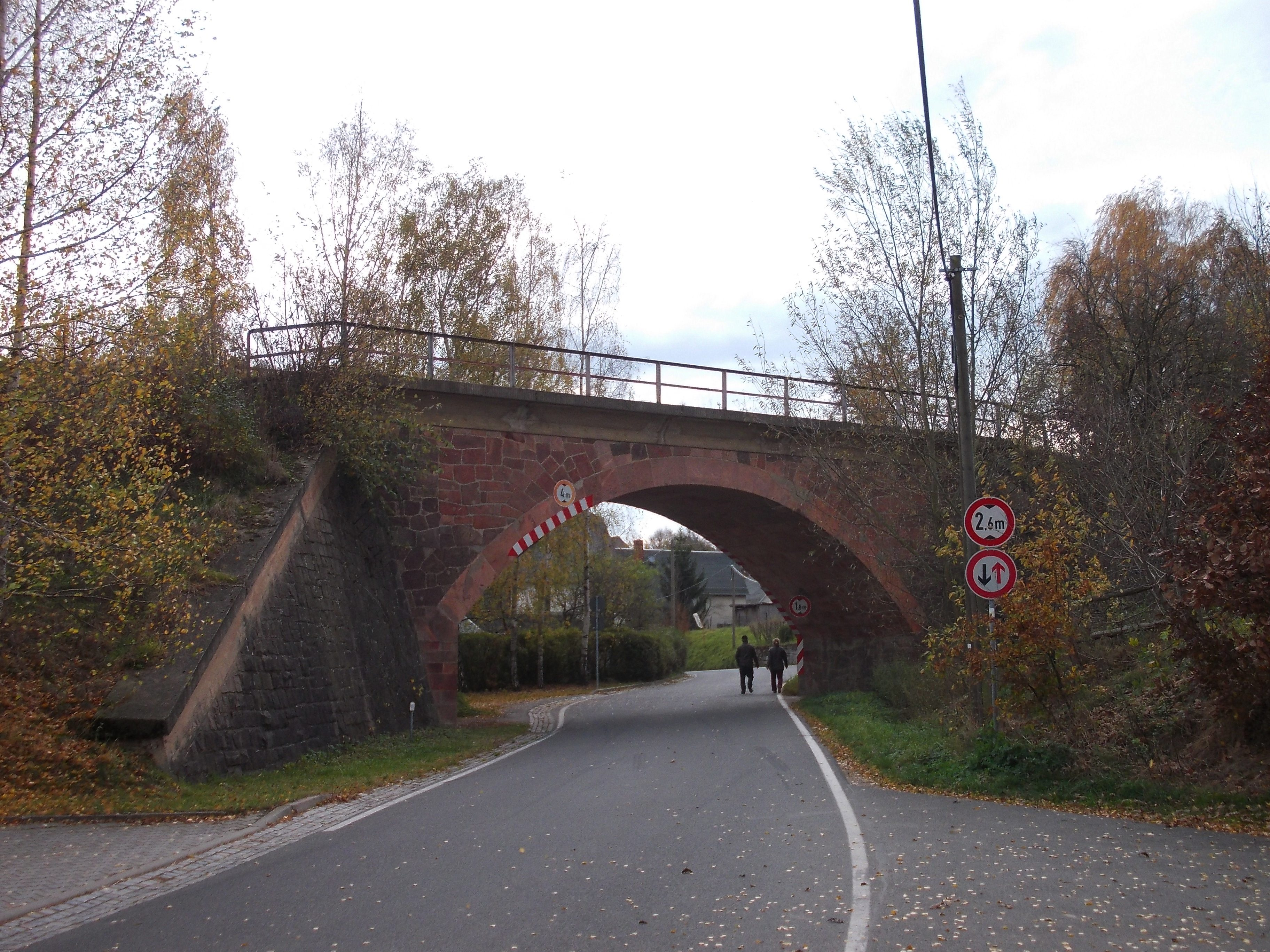 Bridge of the former Rochlitz-Penig railway line in Stollsdorf (Königsfeld, Mittelsachsen district, Saxony)